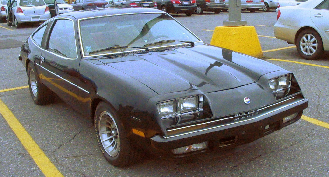 Chevrolet Monza photographed in Pointe-Claire, Quebec, Canada.